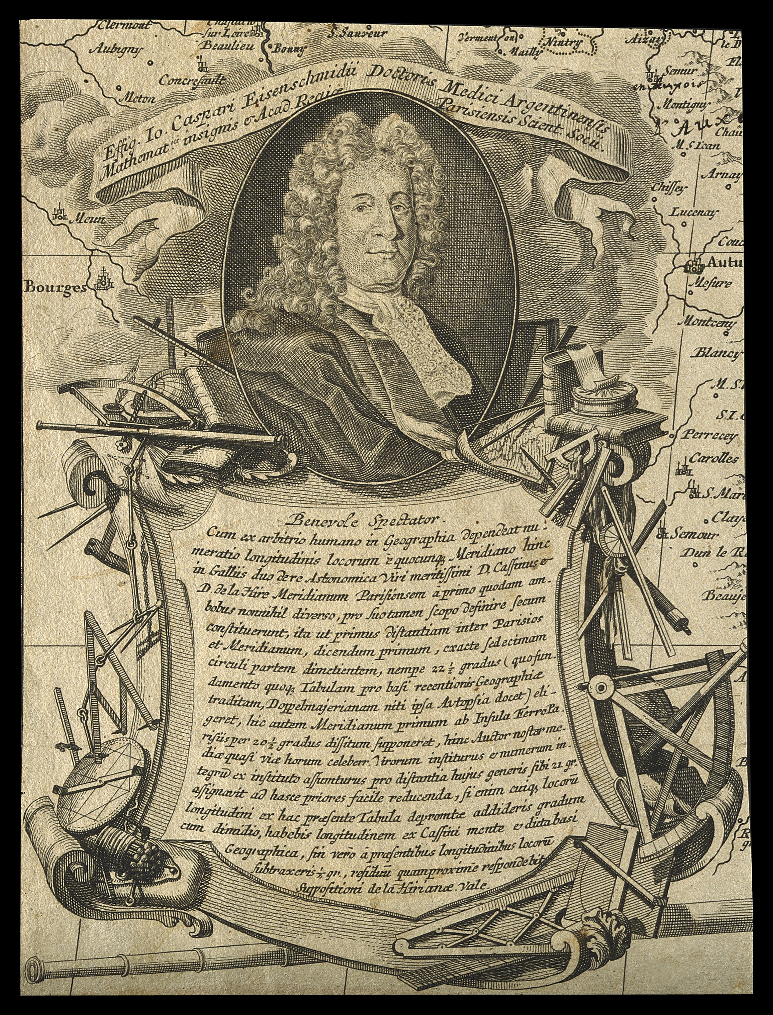 Johann Caspar Eisenschmidt. Line engraving. Iconographic Collections Keywords: portrait prints; engravings; Johann Caspar Eisenschmidt